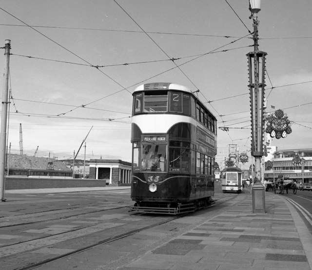 Trams at Blackpool Pleasure Beach The nearest tram is an ex-Edinburgh tram, No 35. (Behind is one-man car No 1.) The Edinburgh trams ceased operations in 1956, but now in 2009 a new tramway is under construction, to open in 2013.